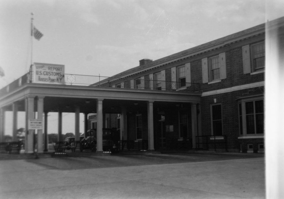 United States, state of New York. Rouses Point customs station.